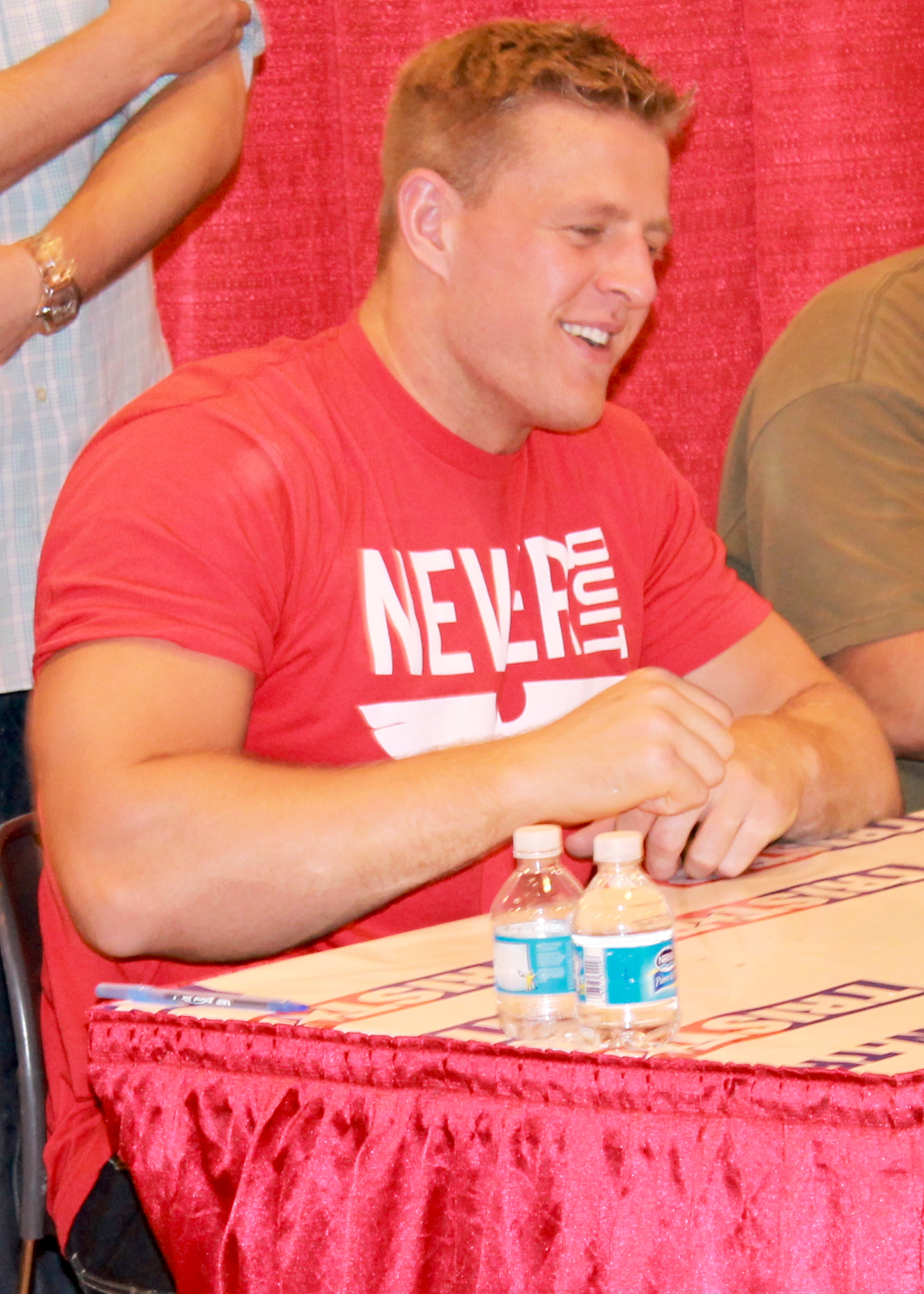 National Football League player J. J. Watt signs autographs at a Houston sports collectors show in June 2014.